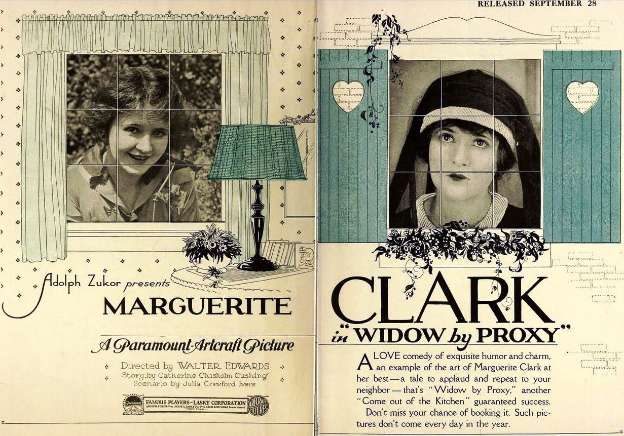 Advertisement for the American romantic comedy film Widow by Proxy (1919) with Marguerite Clark, pages 958 and 959 of the August 2, 1919 Motion Picture News.